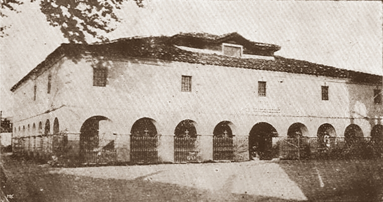 Church of the Annunciation in Prilep.